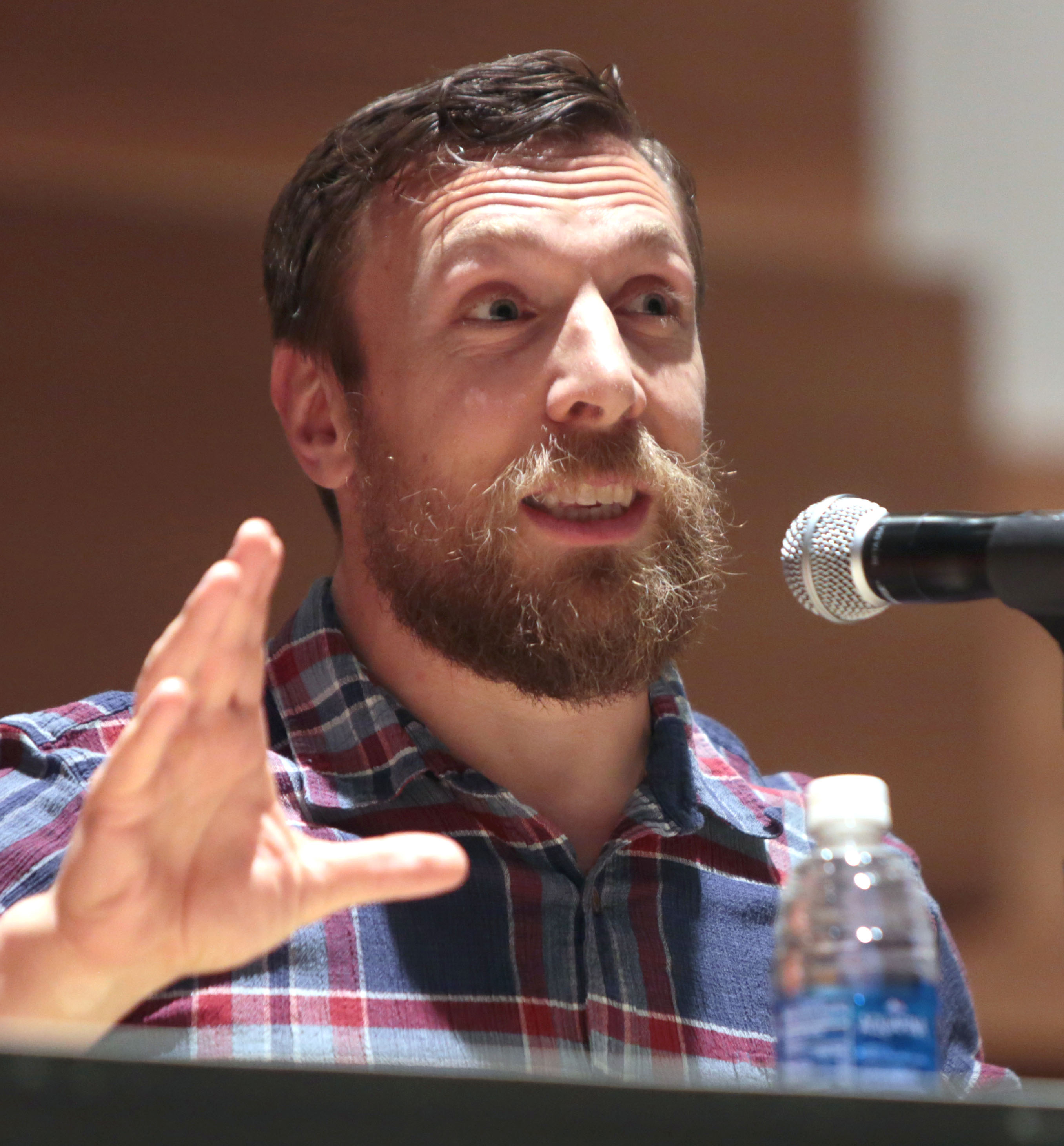 Daniel Bryan at the Phoenix Comic Con in October 2016.